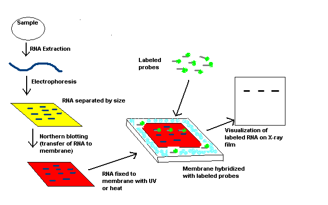 Flow diagram of northern blotting technique